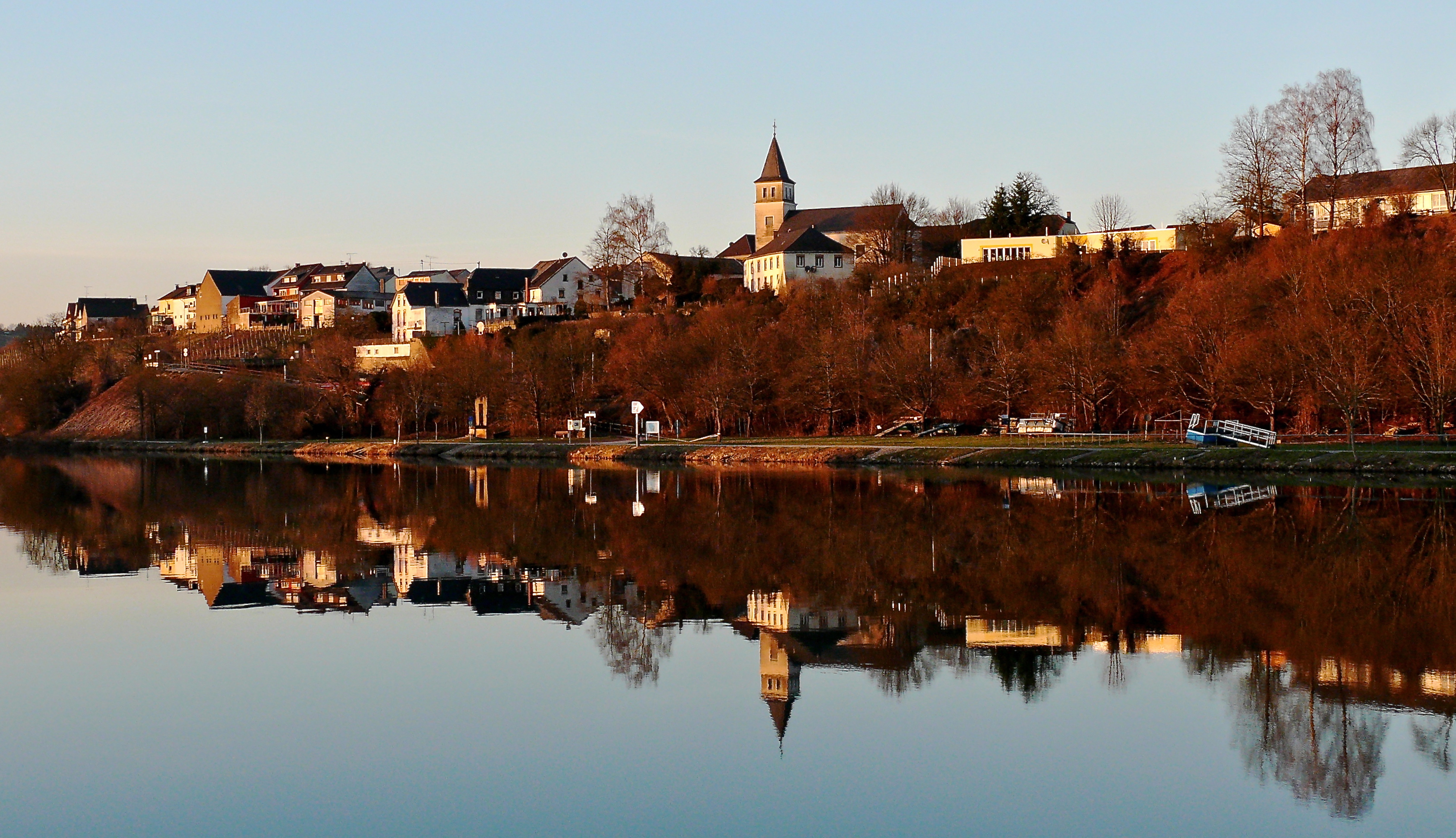 PALZEM situated on the German side river Moselle, pictured from Stadtbredimus, LU